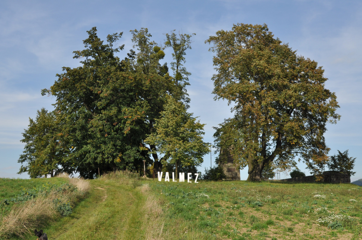 The Valmez Sign on Helštýn hill, Valašské Meziříčí, Zlín Region, Czech Republic. The sign was mysteriously put up by an unidentified person in September 2010, and appears to be an imitation of the Hollywood Sign. The trees in the background are small-leaved limes (Tilia cordata).